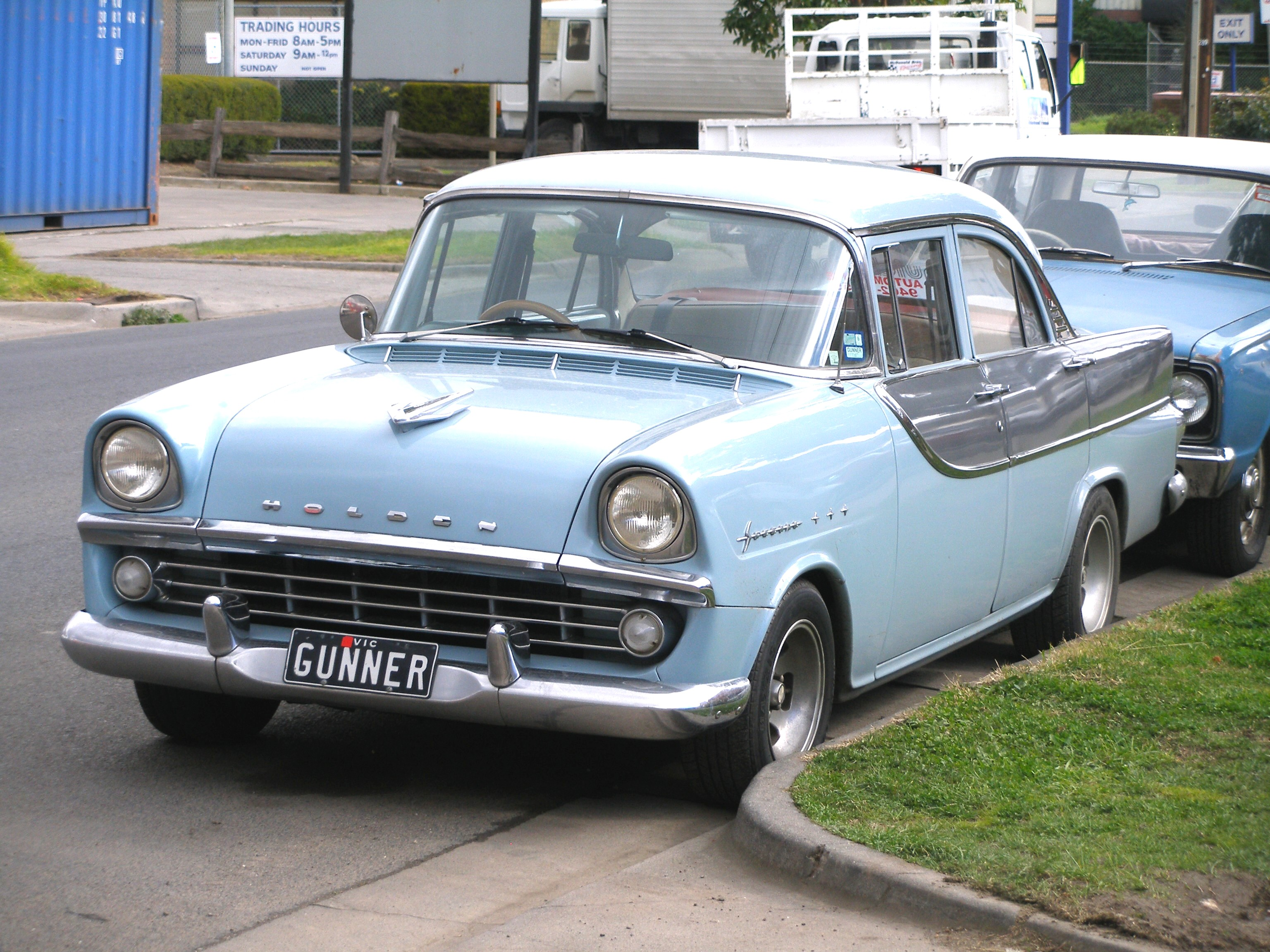 1960–1961 Holden FB Special sedan, photographed in Victoria, Australia.